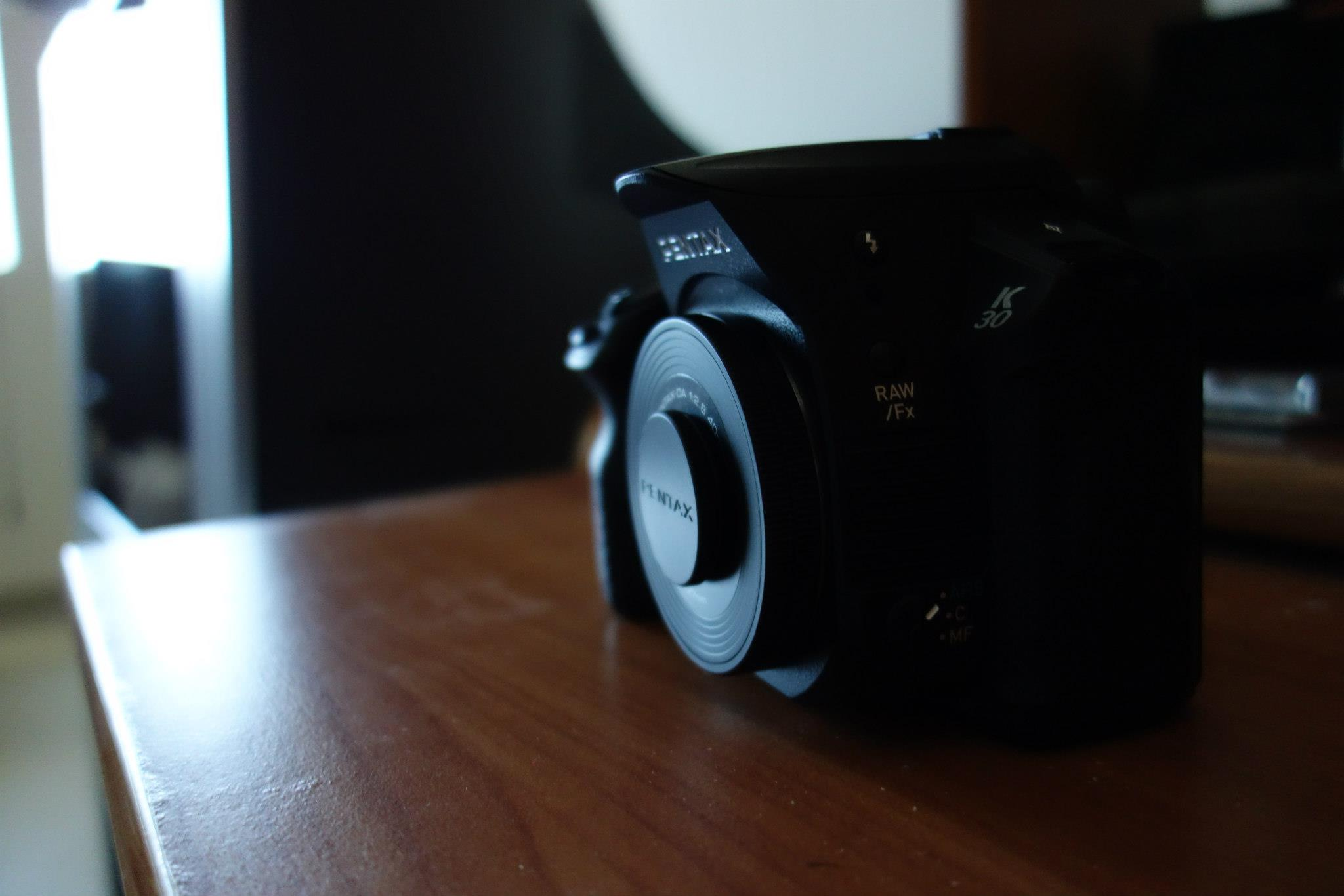 Pentax K-30 with a SMC Pentax-DA 40mm f/2.8 XS lens